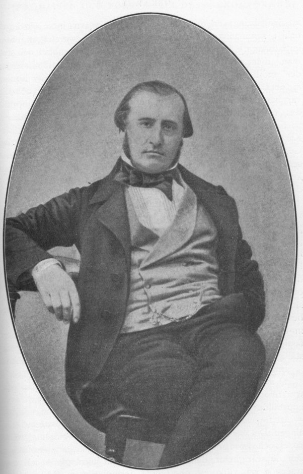 Member of parliament Emil Key (1822-1892)